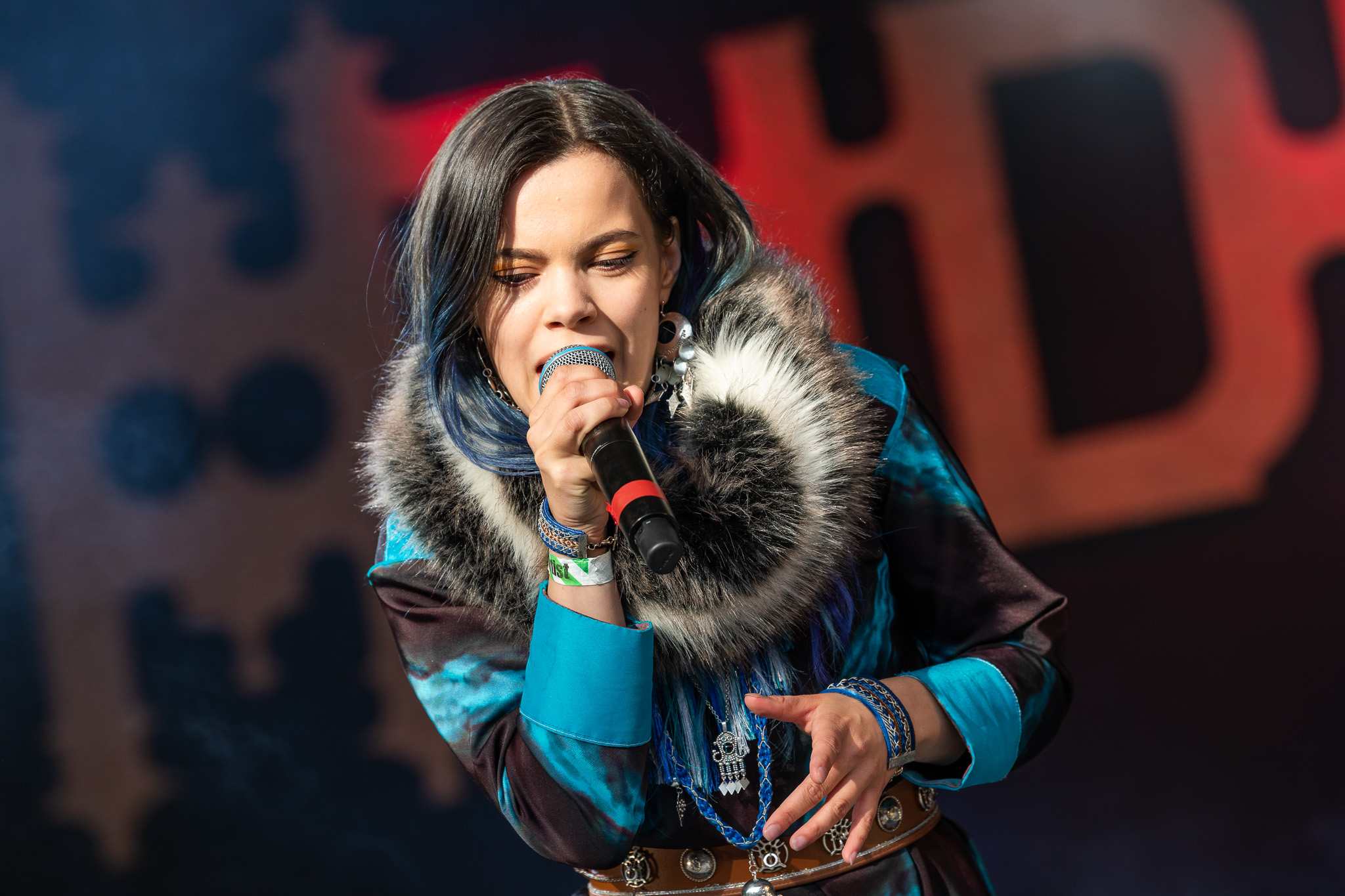 Hildá Länsman during the opening concert of Riddu Riđđu 2019